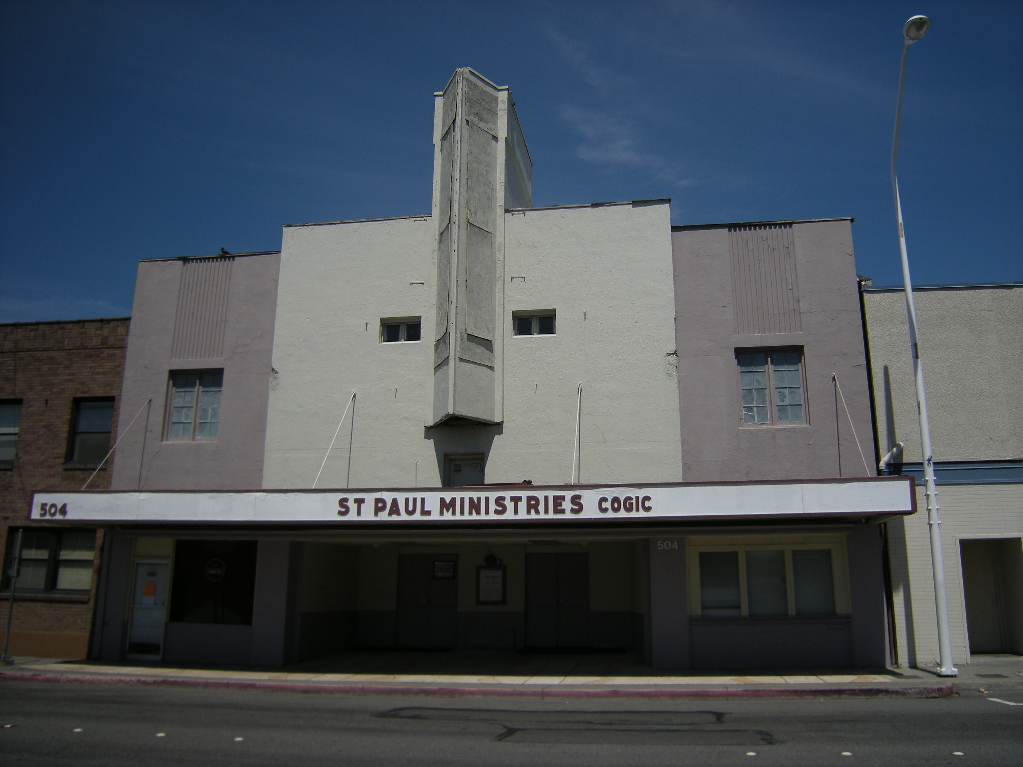 The former Roxy Theater, 504 S. Third Street, Renton, Washington. Formerly a cinema, now Saint Paul Ministries, Church of God in Christ. The theater's former neon sign, now in the Renton Historical Museum